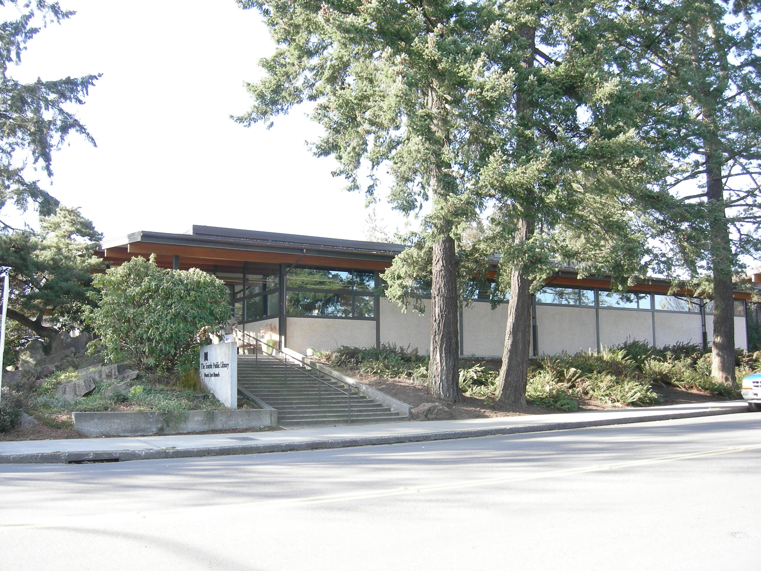 North East Library, Seattle, Washington. The building has city landmark status.